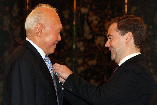 SINGAPORE. With Minister Mentor of Singapore Lee Kuan Yew.